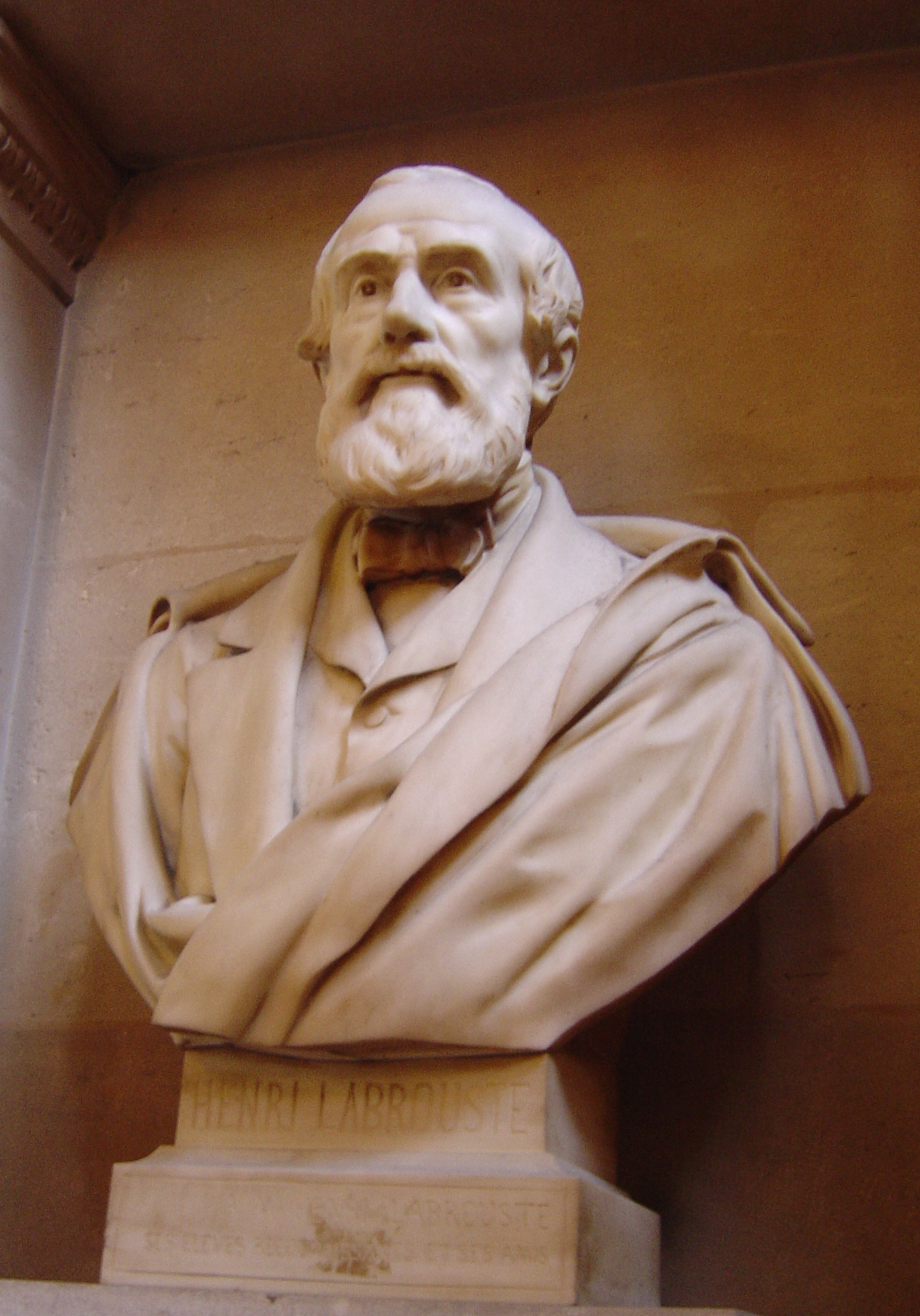 Bust of french architect Henri Labrouste in the staircaise of bibliothèque Sainte-Geneviève, Paris. Sculptor : Jean-Baptiste Claude Eugène Guillaume (1822–1905) Alternative namesJean-Baptiste Claude Eugène GuillaumeDescription French sculptor Date of birth/death4 July 18221 March 1905Location of birth/deathMontbardRomeAuthority control VIAF: 32141025 LCCN: nr98022097 GND: 123862469 BnF: cb13198357b ULAN: 500018413 ISNI: 0000 0001 0814 1391 WorldCat .